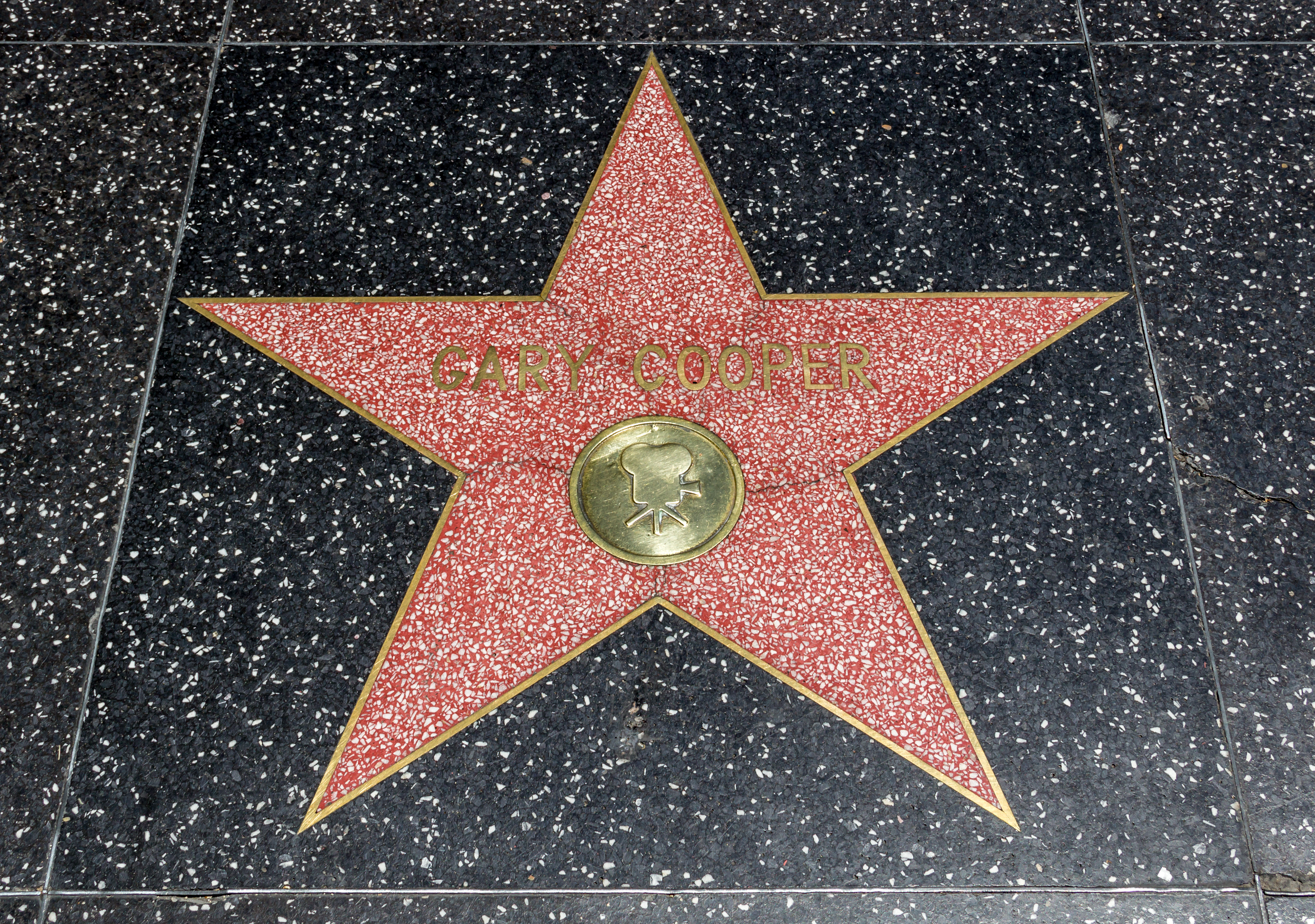 Star “Gary Cooper” at the Hollywood Boulevard in Los Angeles, California, USA